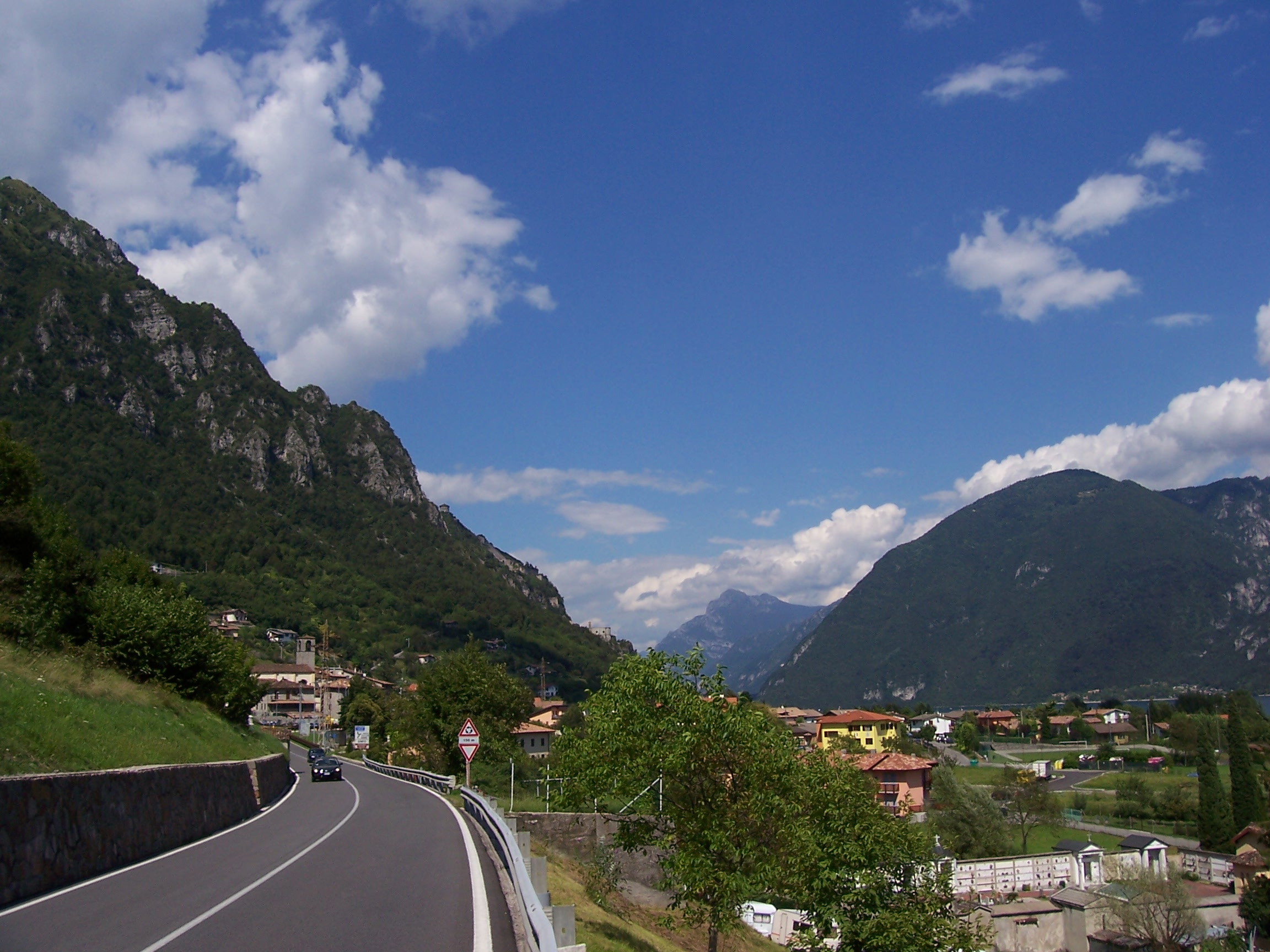 Anfo